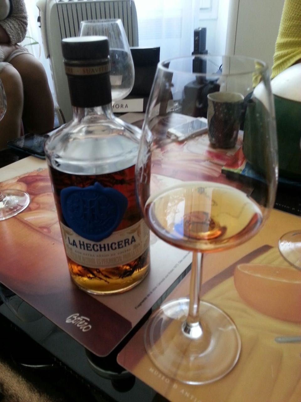 Rhum La Hechicera